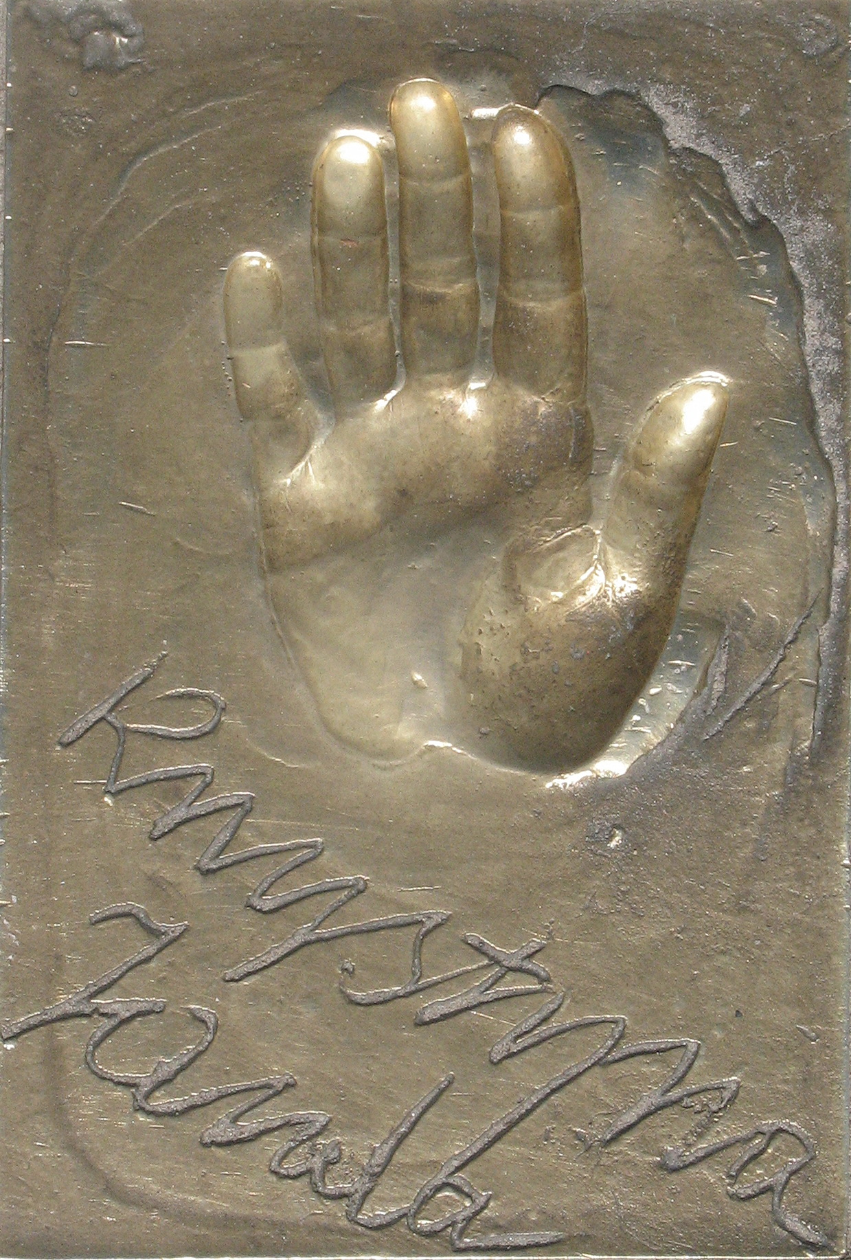 Krystyna Janda - handprint and signature in Międzyzdroje